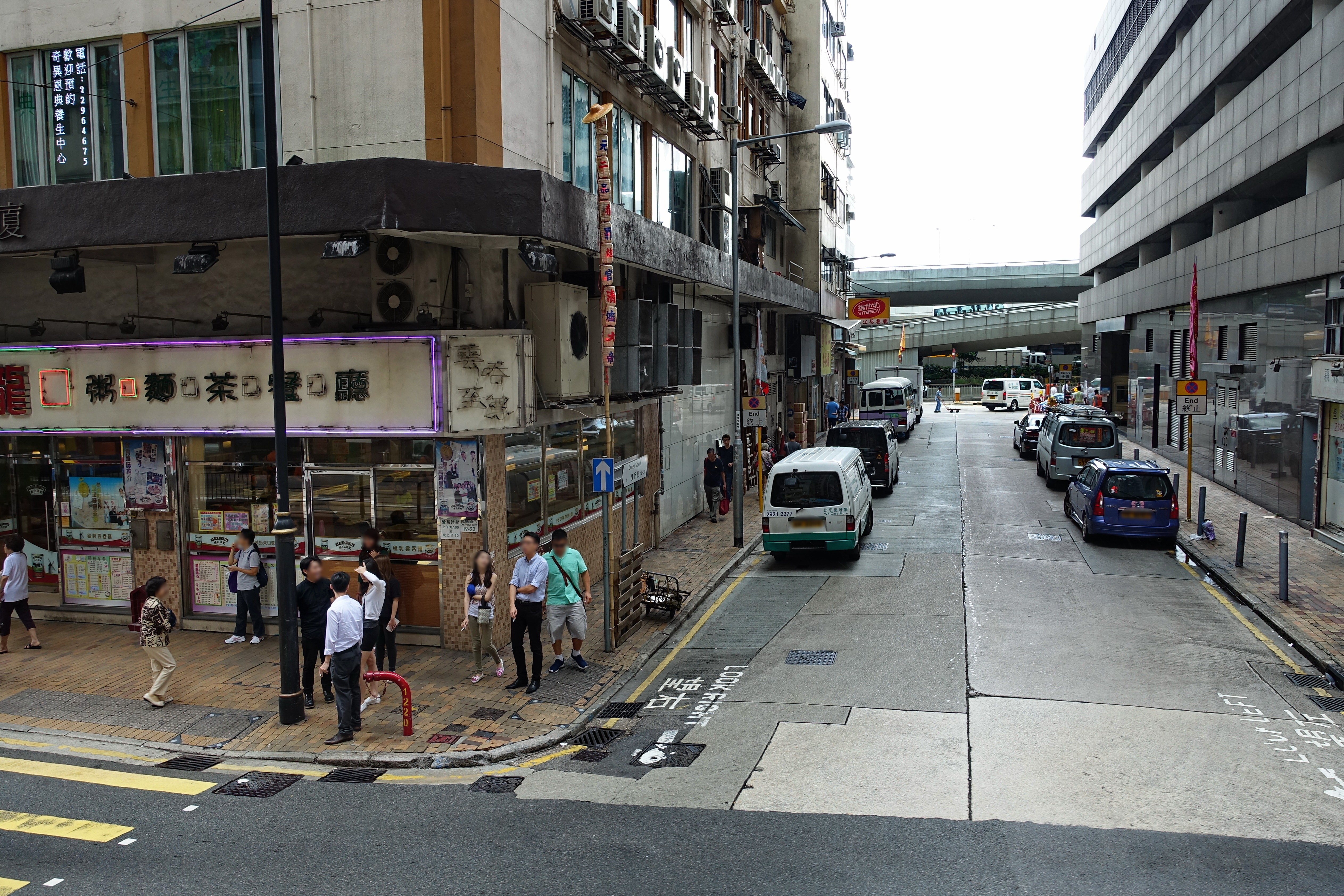 Queen Street near Des Voeux Road West, Hong Kong